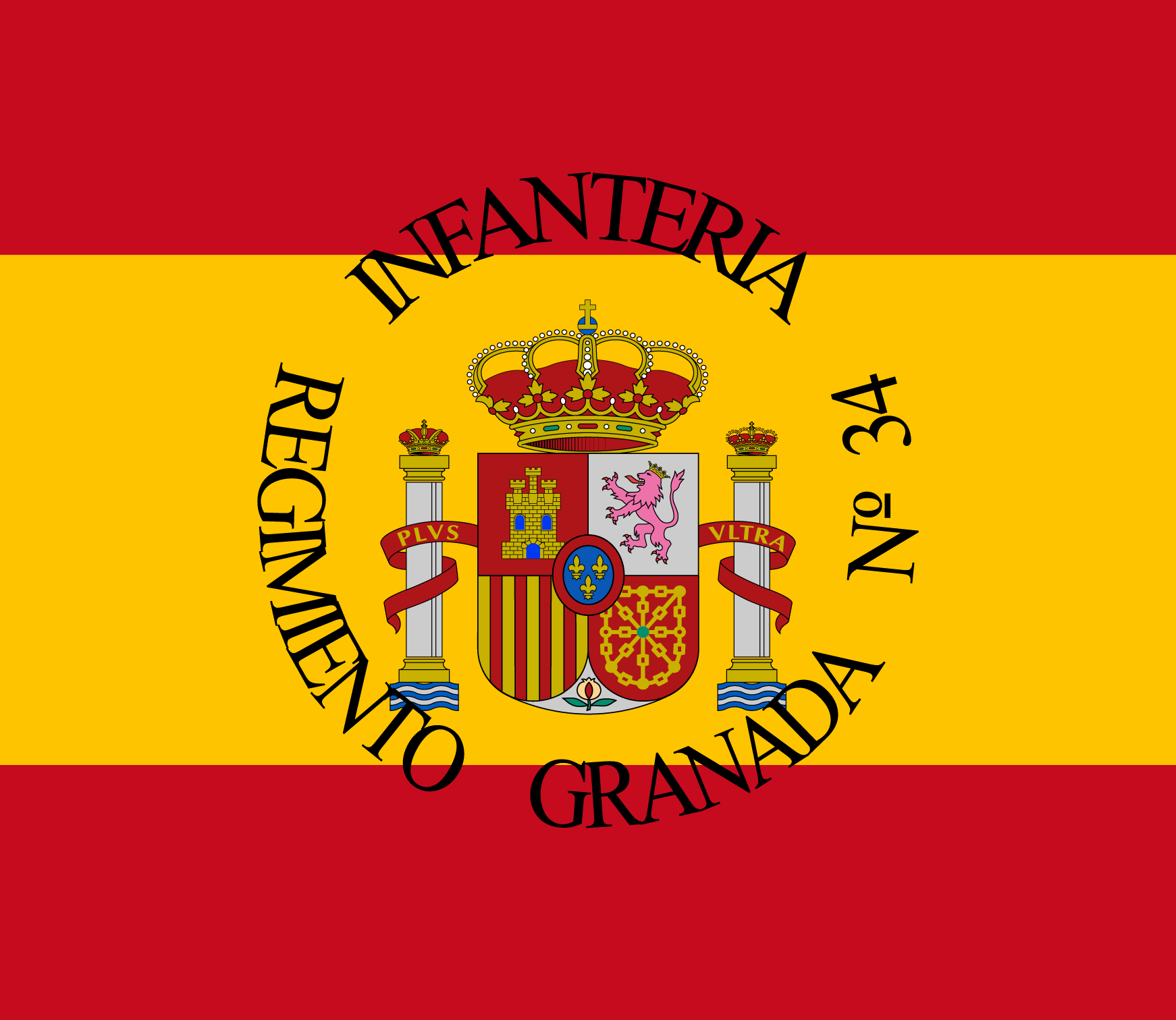 Flag of military unit of Spain